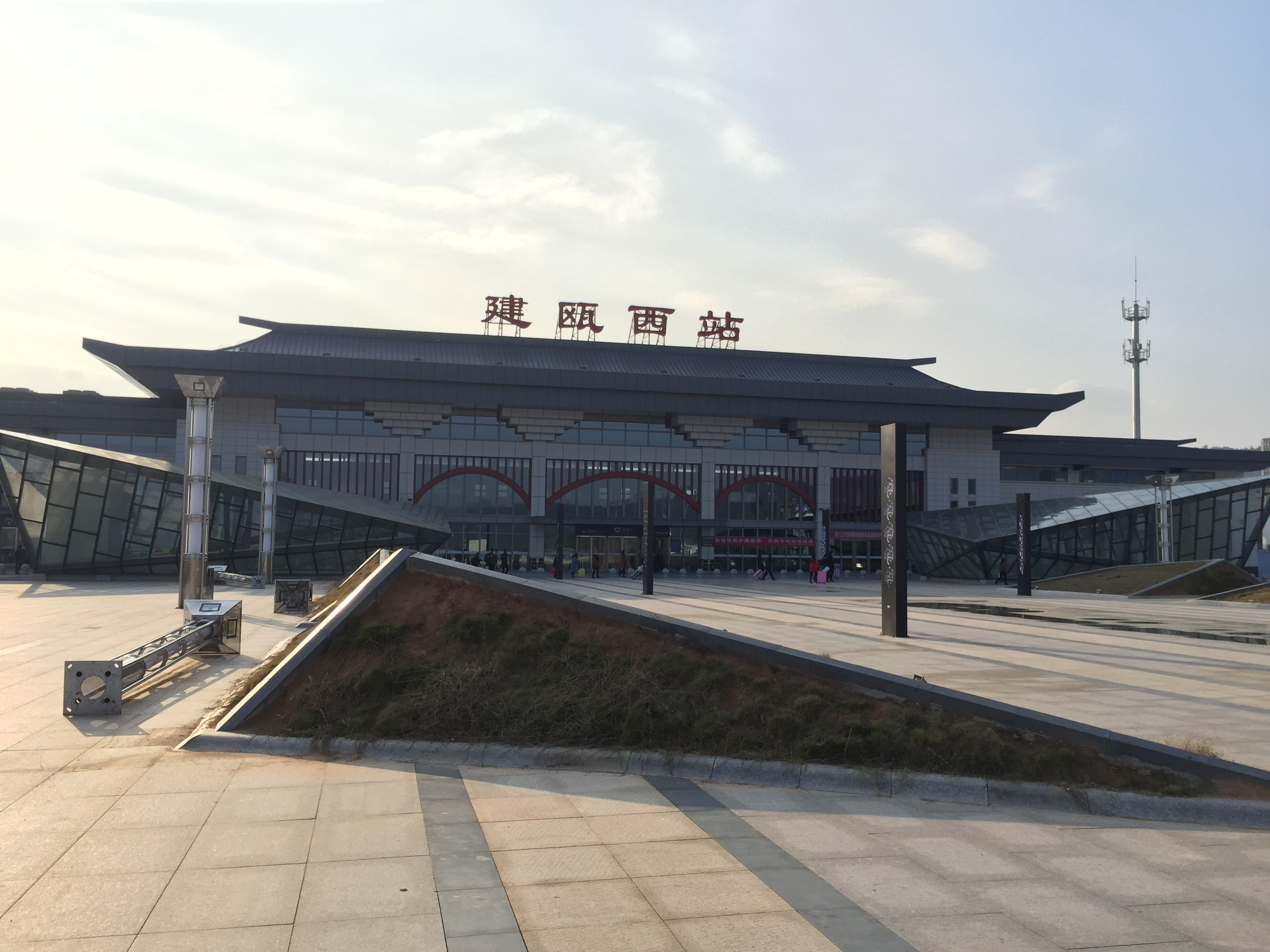 Looks classy, and there's even a "headquarter" of public buses.